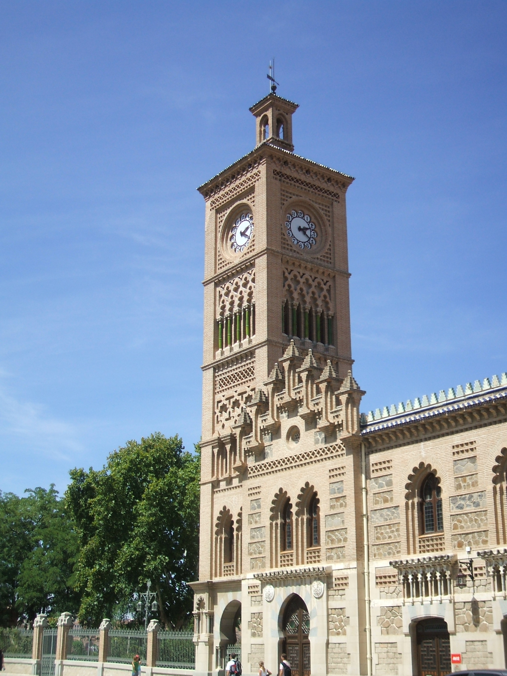 Railway Station in Toledo (Spain), partial exterior view south facade (street side)